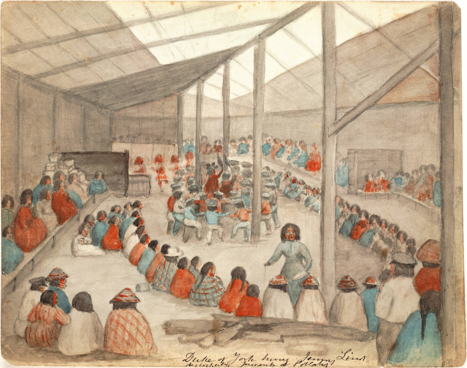 Watercolour by James Gilchrist Swan (1818–1900) of the Klallam people of chief Chetzemoka (nicknamed 'the Duke of York'), with one of Chetzemoka's wives (nicknamed 'Jenny Lind') distributing potlatch at Port Townsend, Washington, USA, now in the Yale Collection of Western Americana, Beinecke Rare Book and Manuscript Library, Yale (Bibliographic Record Number 2003195)